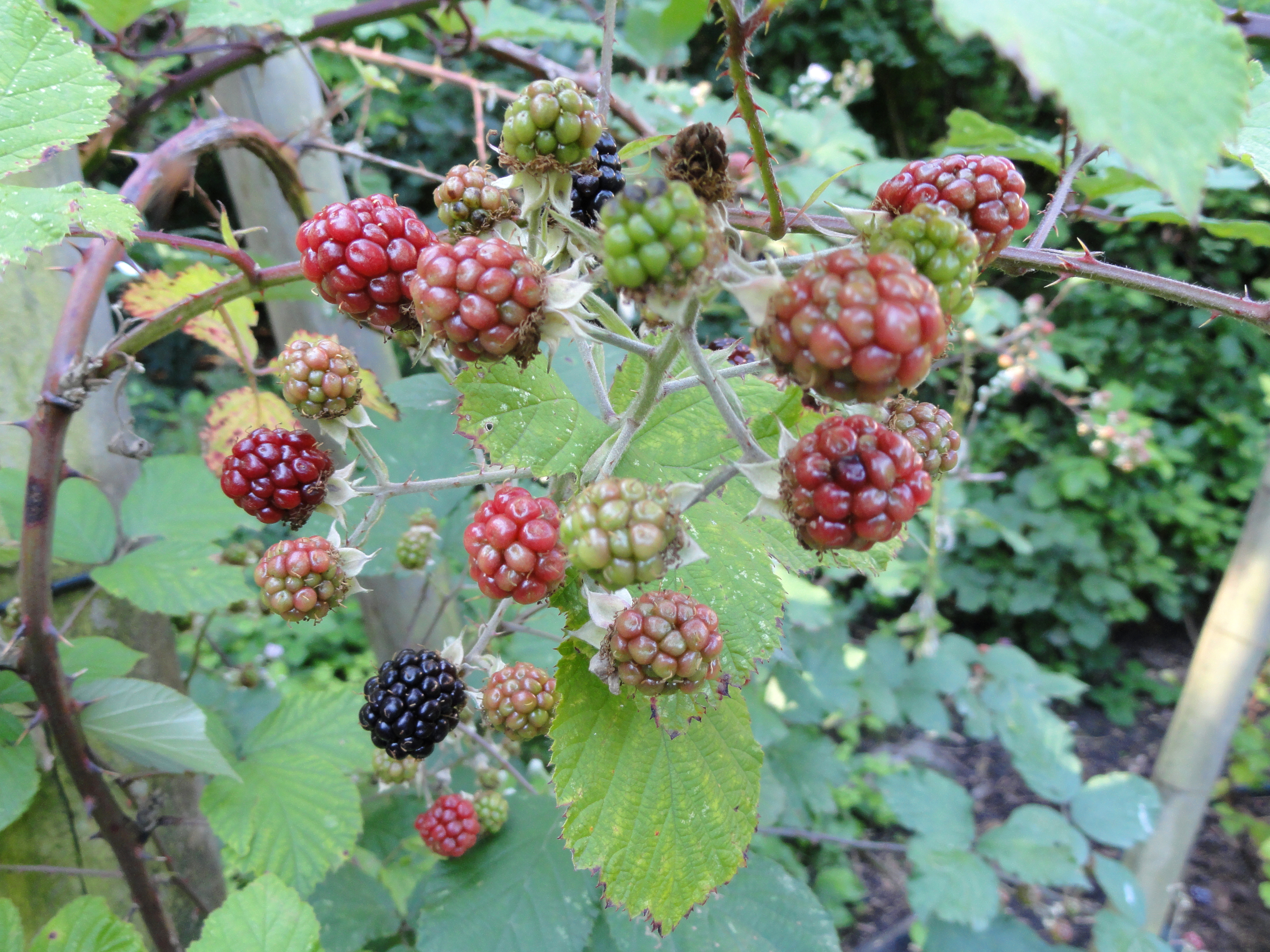 Botanical specimen in the Botanischer Garten, Frankfurt am Main, located at Siesmayerstraße 72, Frankfurt am Main, Germany.